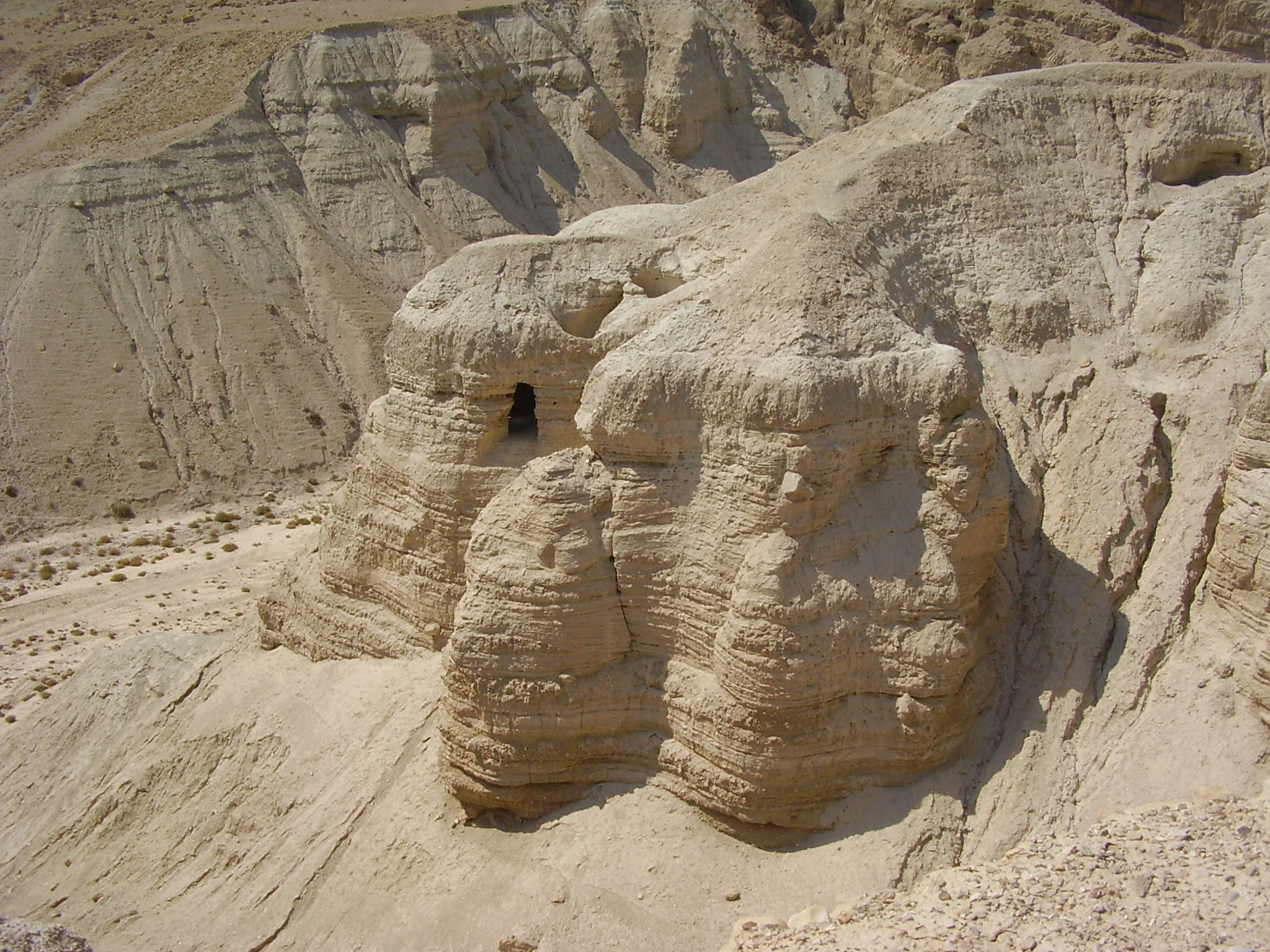 The Scrolls Cave in Qumeran